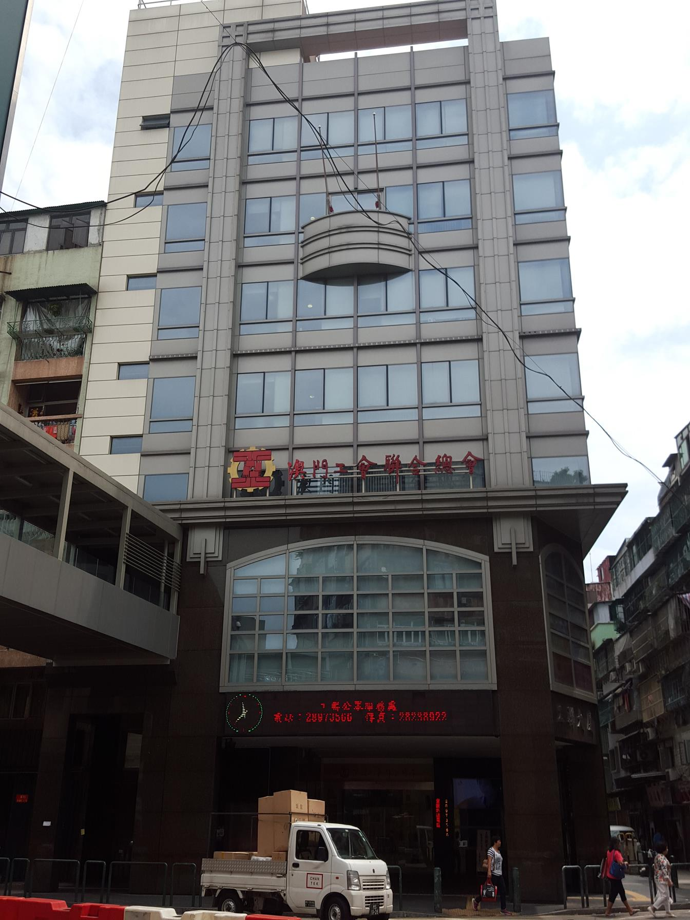 AGOM Building